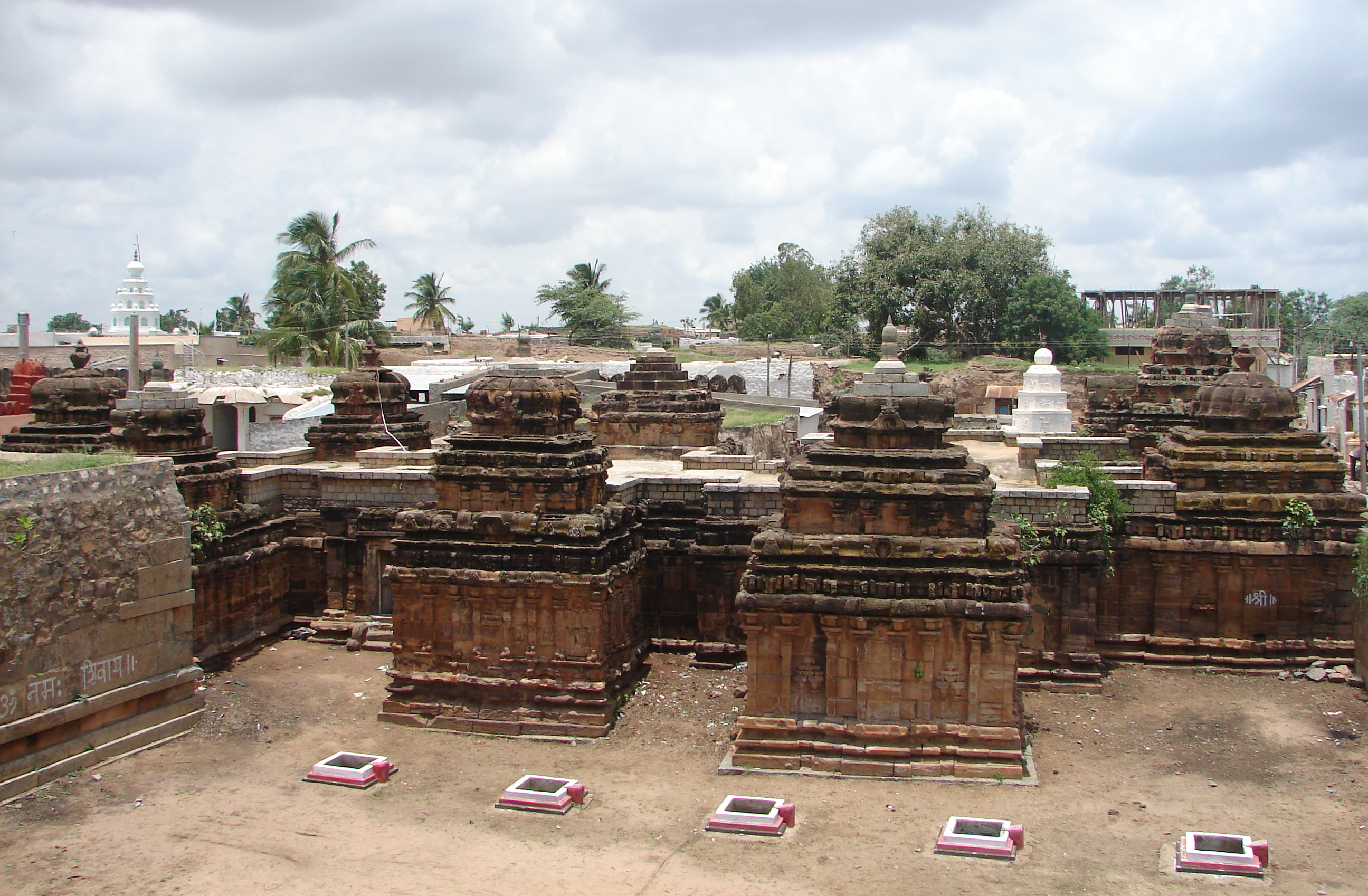 Photo of the Navalinga temples built by the Rashtrakutas, Kuknur, Koppal district, Karnataka state, India